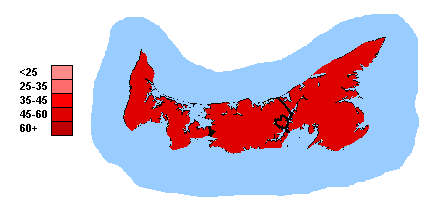 Map made by uploader (User:Earl Andrew); see [1] (question about source) and [2] (response).